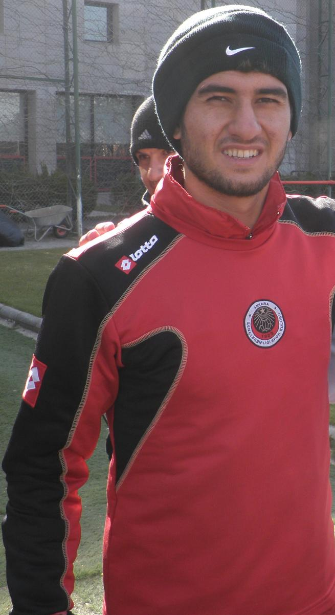 Soner Aydoğdu, Turkish footballer